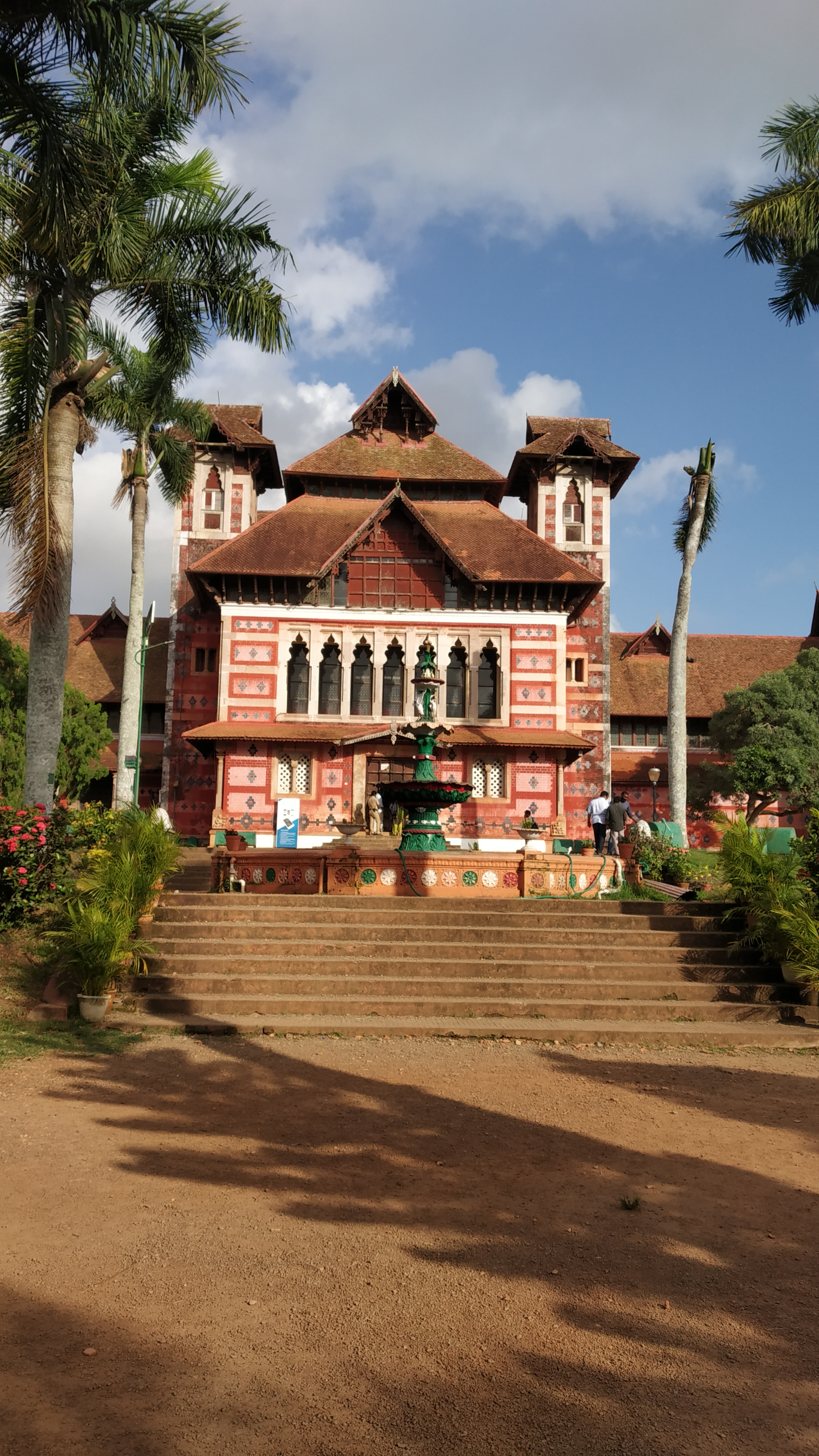 Napier Museum